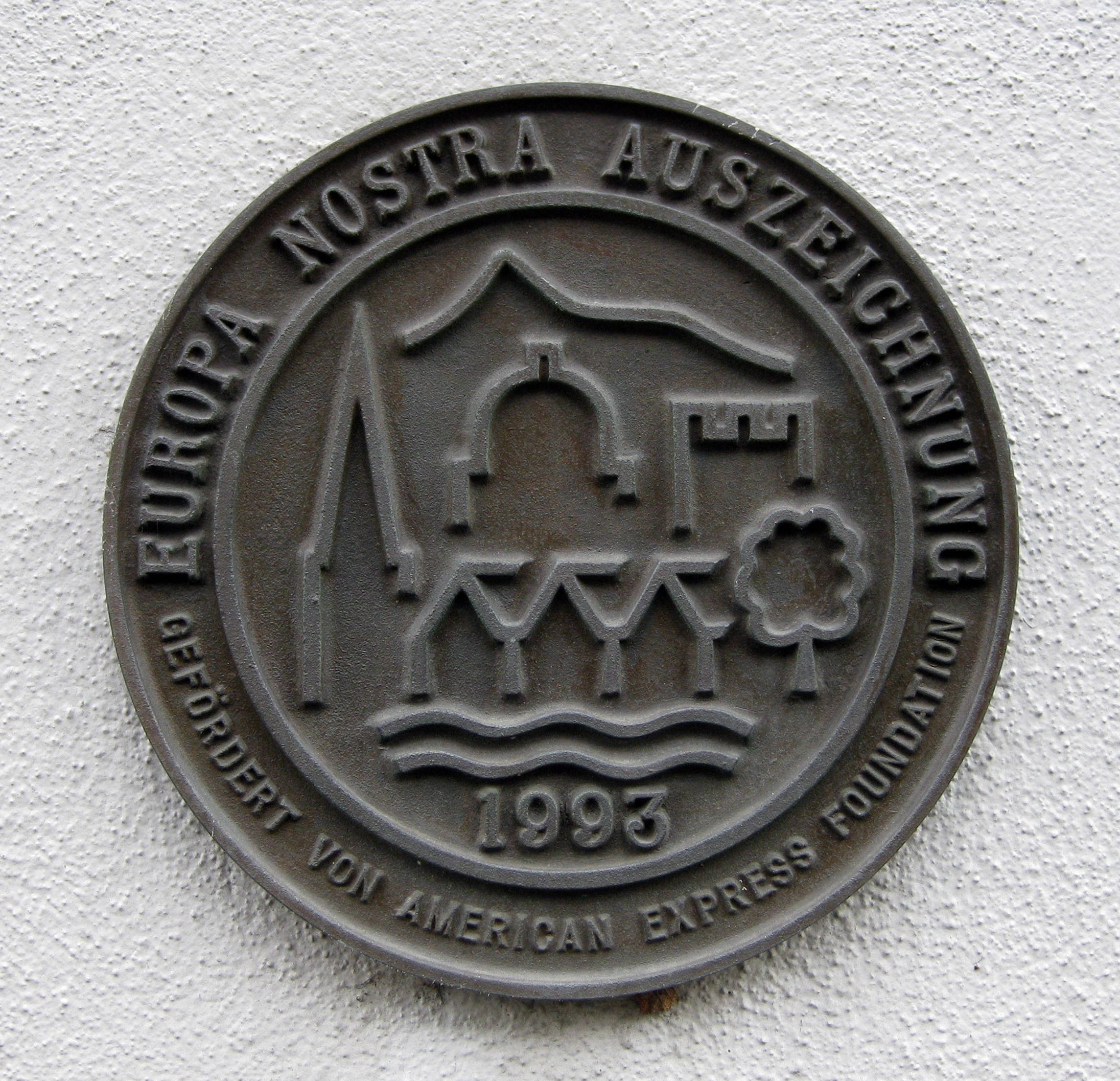 Medal in honor of one of the second winners of "Europa-Nostra-Preis" (Europa Nostra Award) in 1993, attached to the facade of a building in Bonn, Germany.